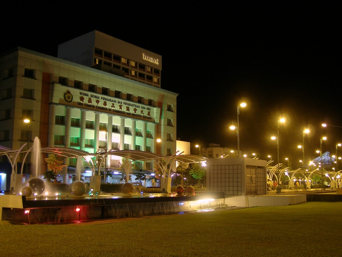 Sibu chinese chamber of commerce and industry